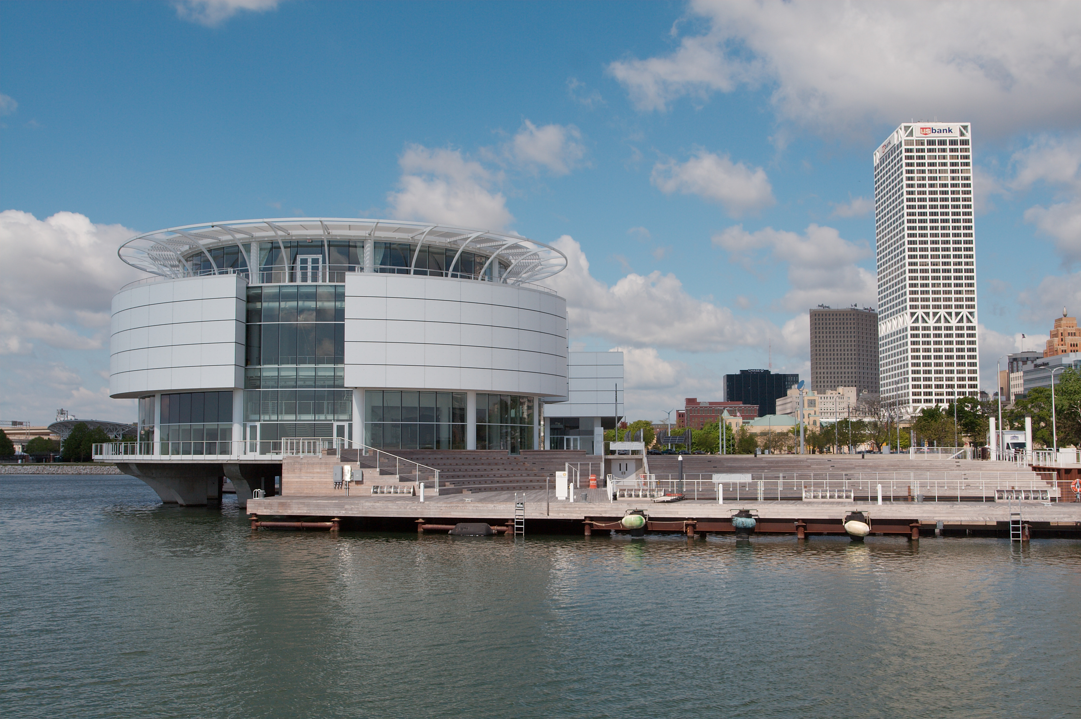 Discovery World in Milwaukee, Wisconsin